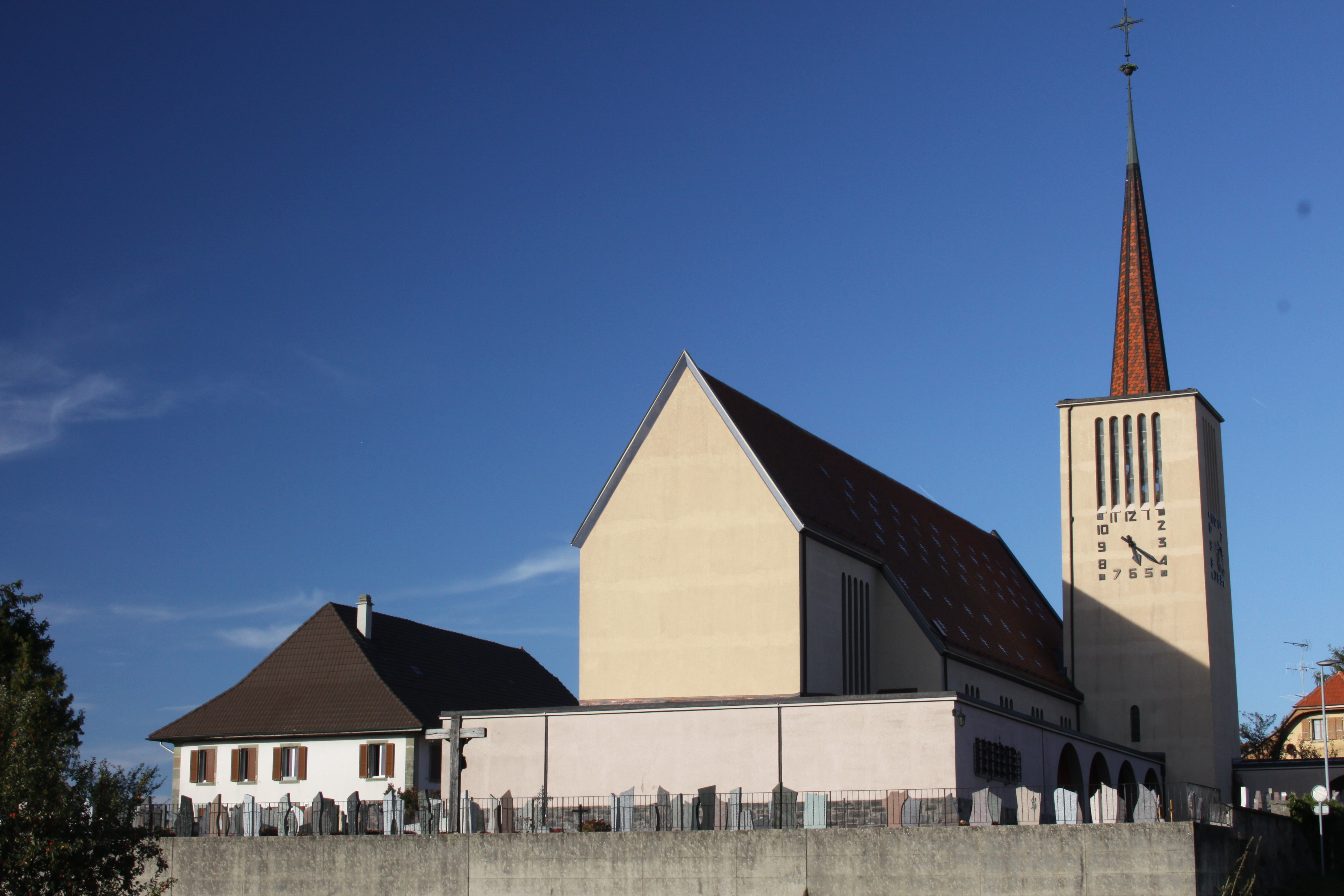 Church of St. Pierre, Chemin de l’Église 5, Orsonnens